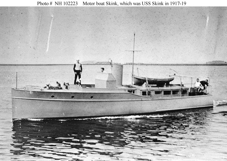 The motorboat Skink shortly before her acquisition by the United States Navy for service as the patrol vessel